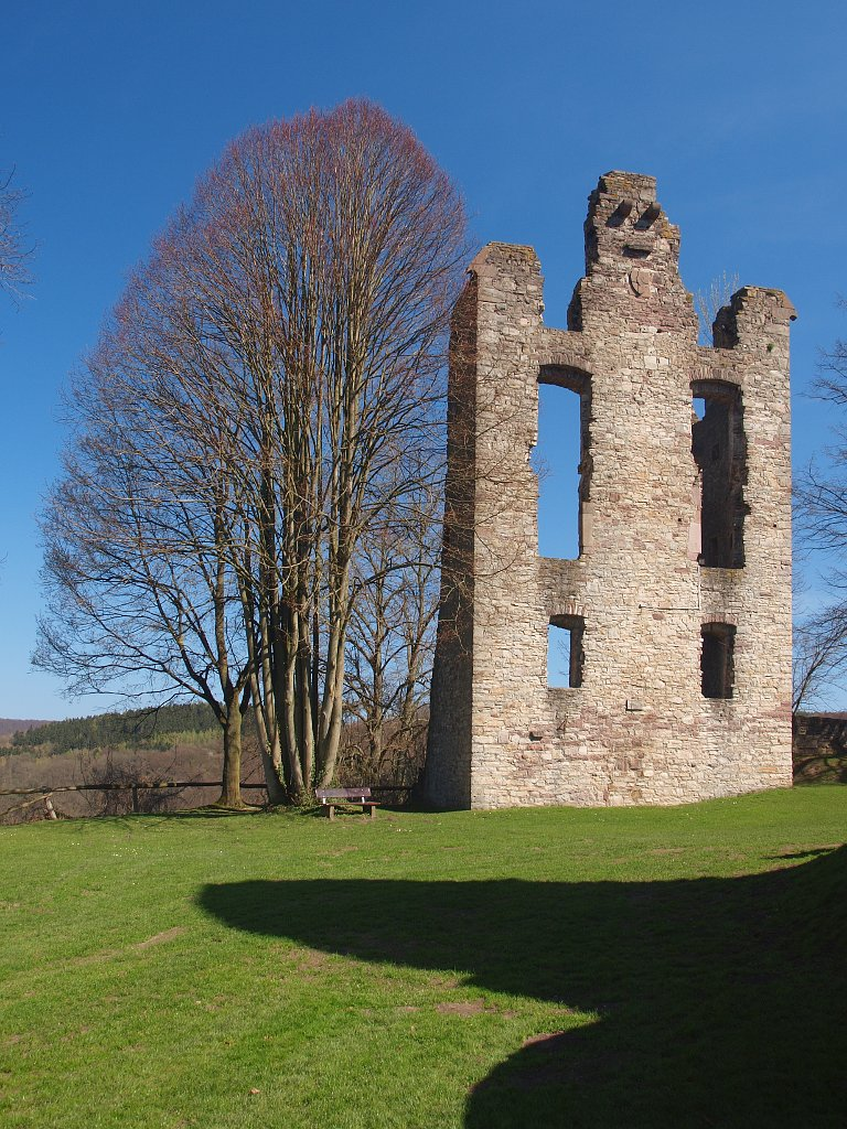 Paderborner Haus of Krukenburg in Helmarshausen